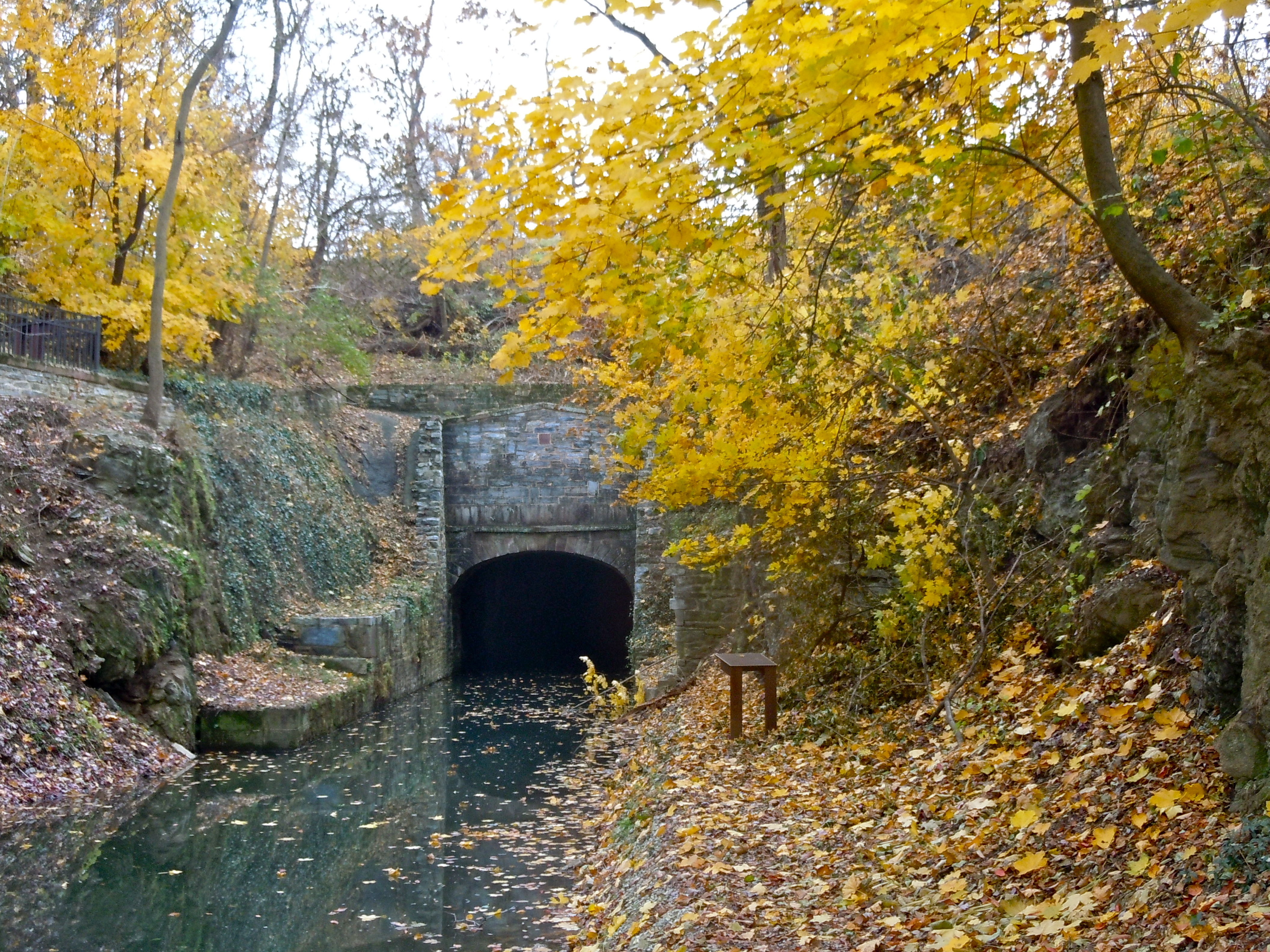 National Historic Landmark Union Canal Tunnel on the NRHP since October 1, 1974. Located west of Lebanon off Pennsylvania Route 72 in a park that can be accessed from Tunnel Hill Road or from the other side Union Canal Road, North Lebanon Township, Lebanon County, Pennsylvania. This is the north portal (canal comes in from the west and takes a 90 degree turn south at the tunnel).